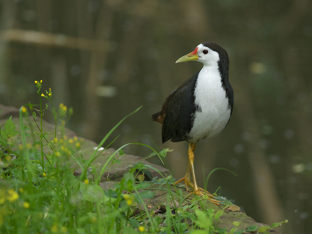 Taken at Taipei Botanical Garden.